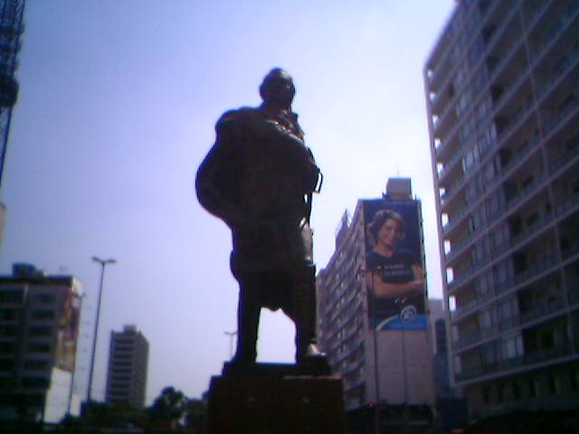 Monument to Francisco Miranda at Praça do Ciclista - São Paulo - SP - Brazil